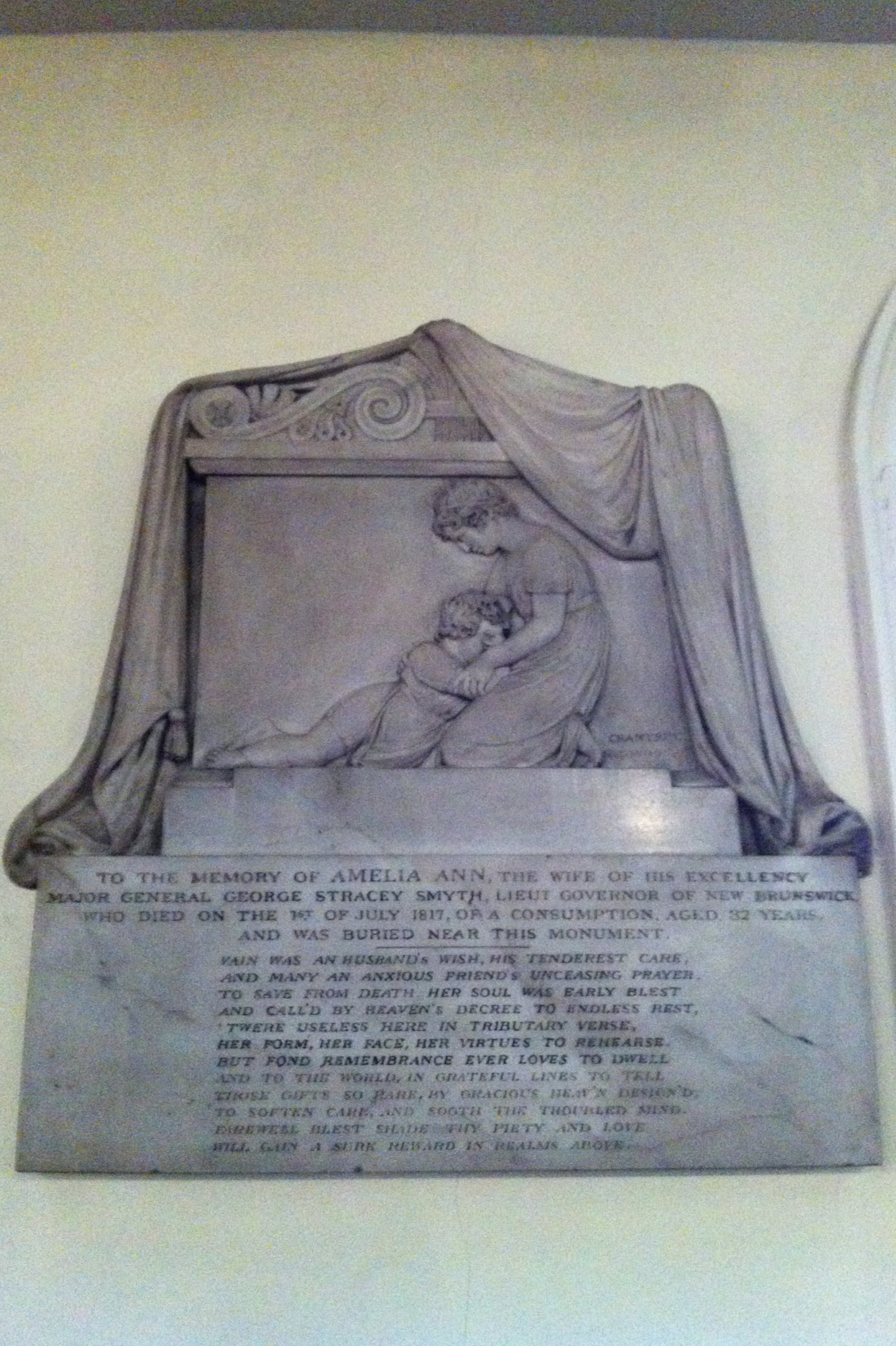 Amelia Ann Smyth, St. Pauls Church, Halifax, Nova Scotia